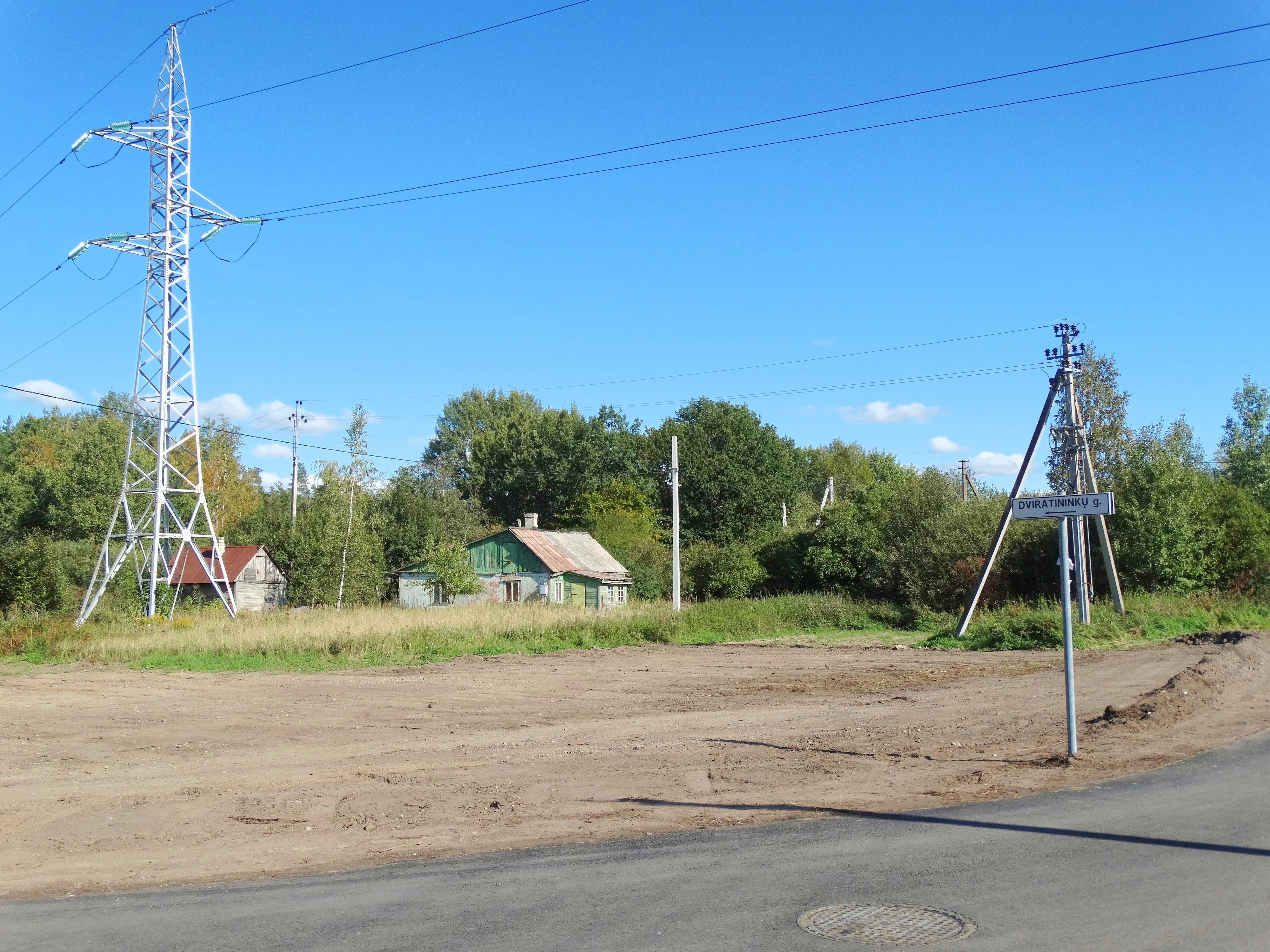 Narėpai, Kaunas district. Lithuania